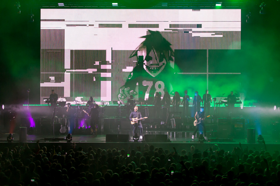 Gorillaz, Oslo Spektrum, November 5th 2017